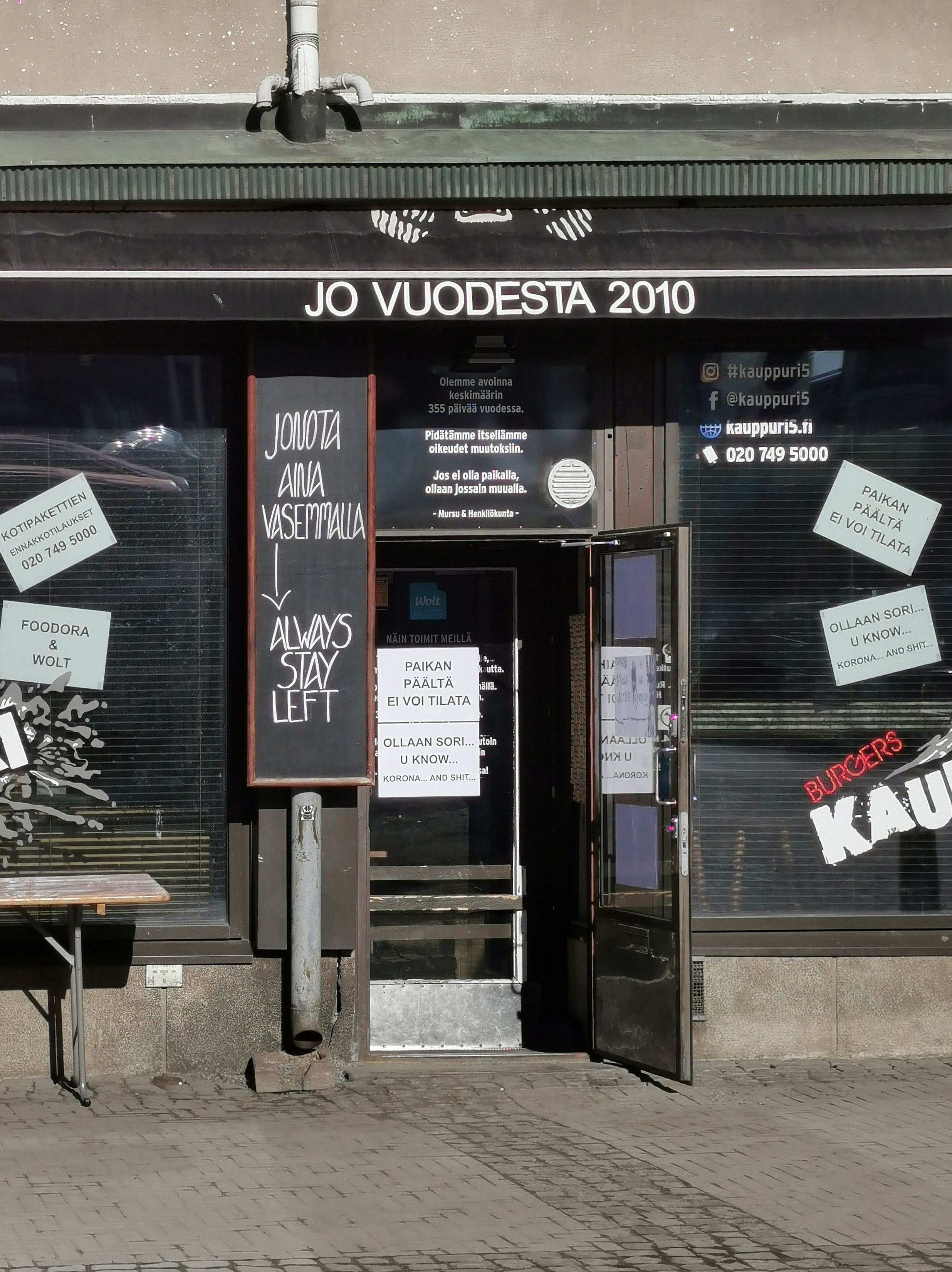 The Bar&Grill Kauppuri 5 in Oulu is only open for takeaway due to the COVID-19 pandemic.